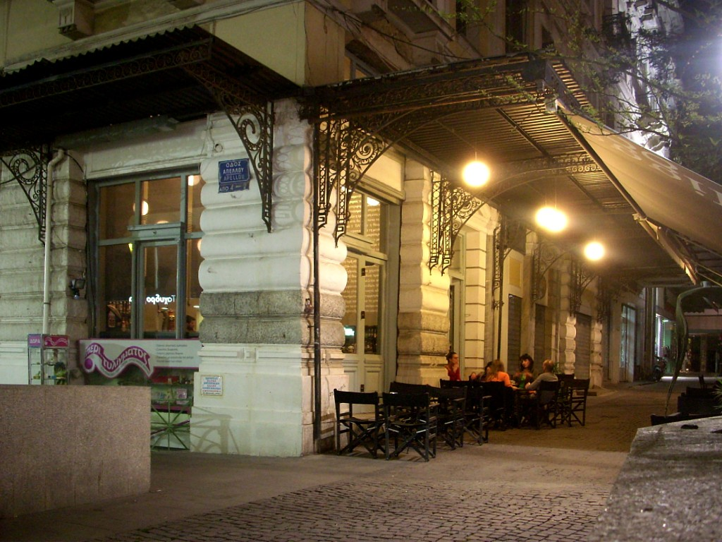 Cafe bar "Higgs" in Athens